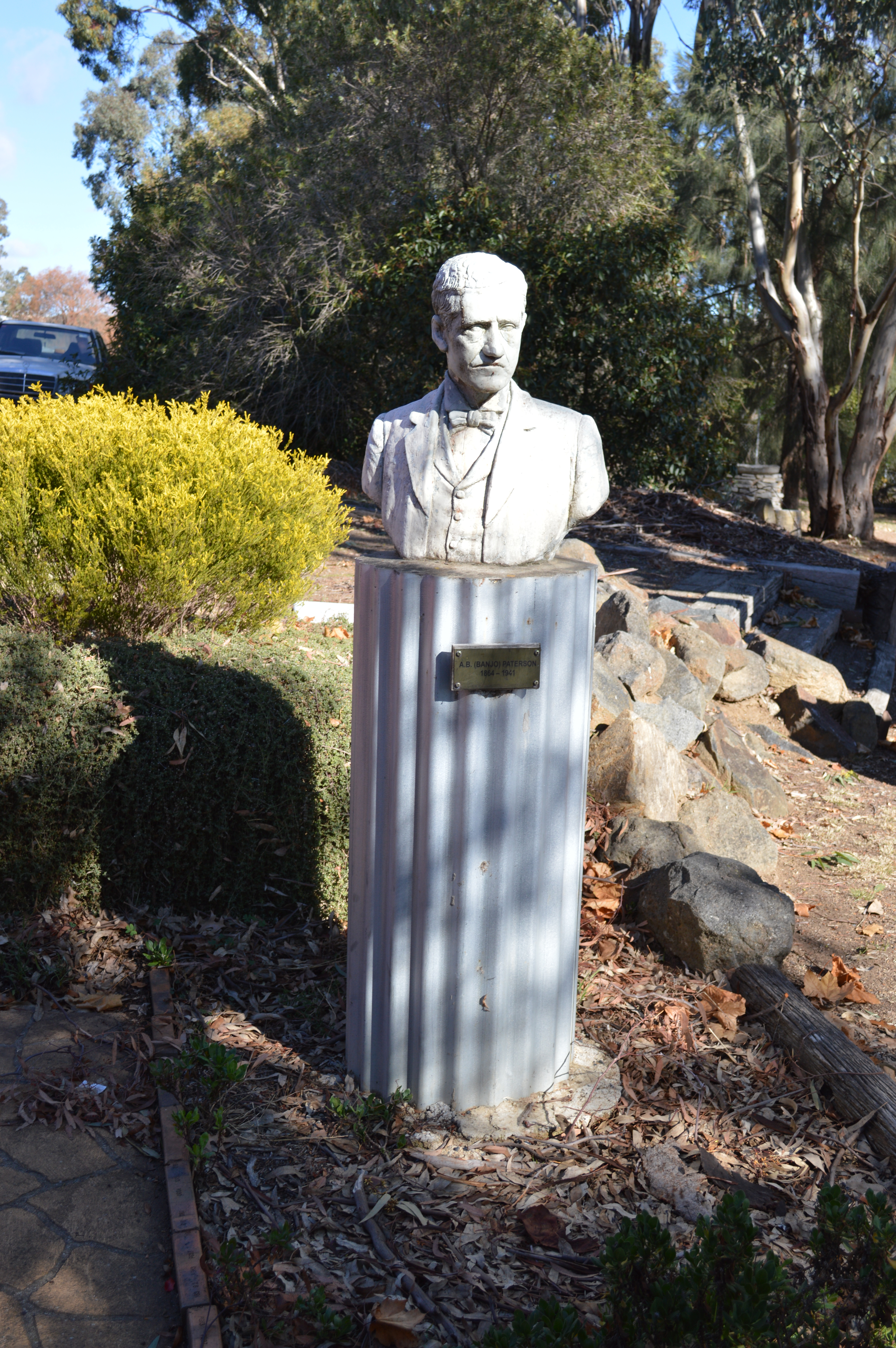 Bust of Banjo Paterson in Pioneer Park in Binalong, New South Wales